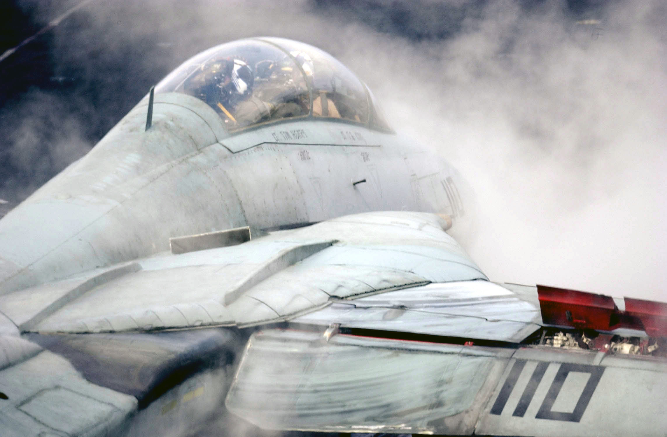 Mediterranean Sea (Feb. 25, 2003) -- An F-14 “Tomcat” fighter aircraft prepares for launch from the flight deck of the nuclear powered aircraft carrier USS Harry S. Truman (CVN-75). Truman and her embarked Carrier Air Wing Three (CVW-3) are on a regularly scheduled six month deployment in support of Operation Enduring Freedom. U.S. Navy photo by Photographer’s Mate Airman Ryan O'Connor. (RELEASED)